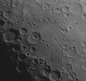 Oblique view of Dostoevskij crater on Mercury. Cropped from MESSENGER Wide Angle Camera. The stats below are for the original image and not necessarily for the subframe. Emission Angle: 48.5 Incidence Angle: 67.4 Latitude: -29.5 Longitude: 198.2 Phase Angle: 98.6